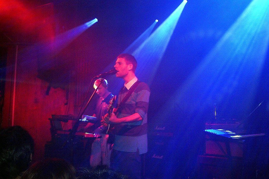 The Radio Dept.